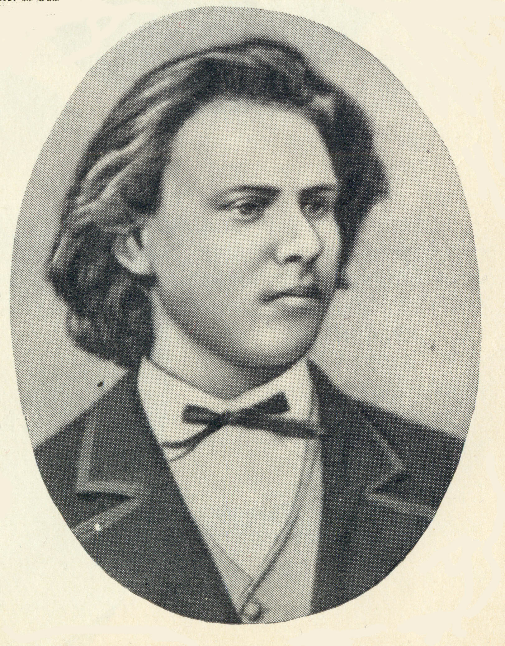 A photo of A. Zhelyabov when he was a student